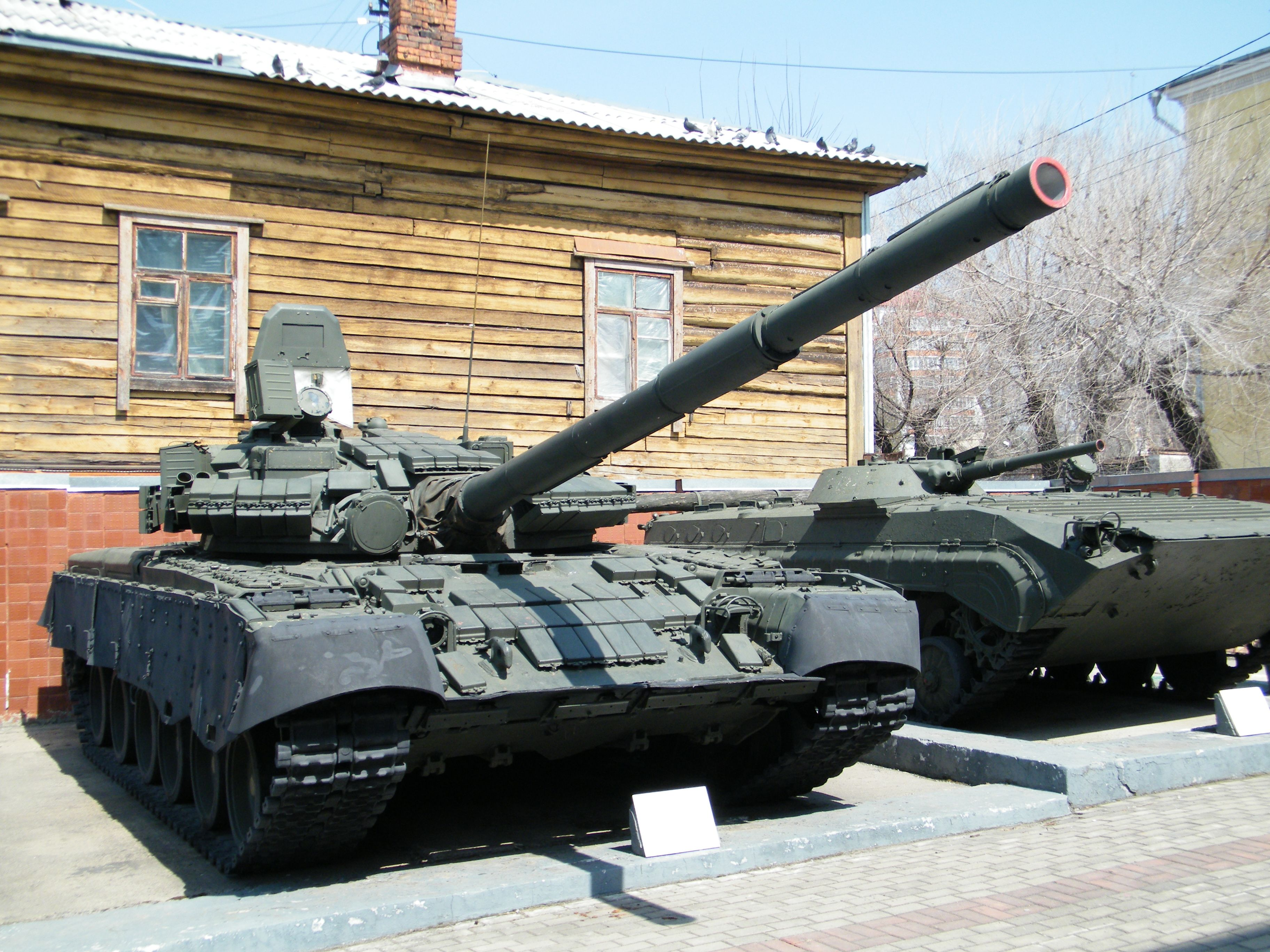 Khabarovsk Military Museum